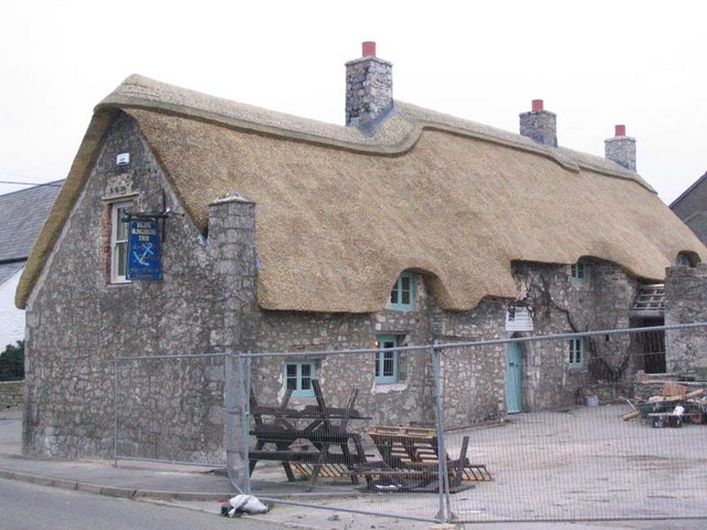 The Blue Anchor Inn, East Aberthaw Nearing refurbishment following a serious fire.